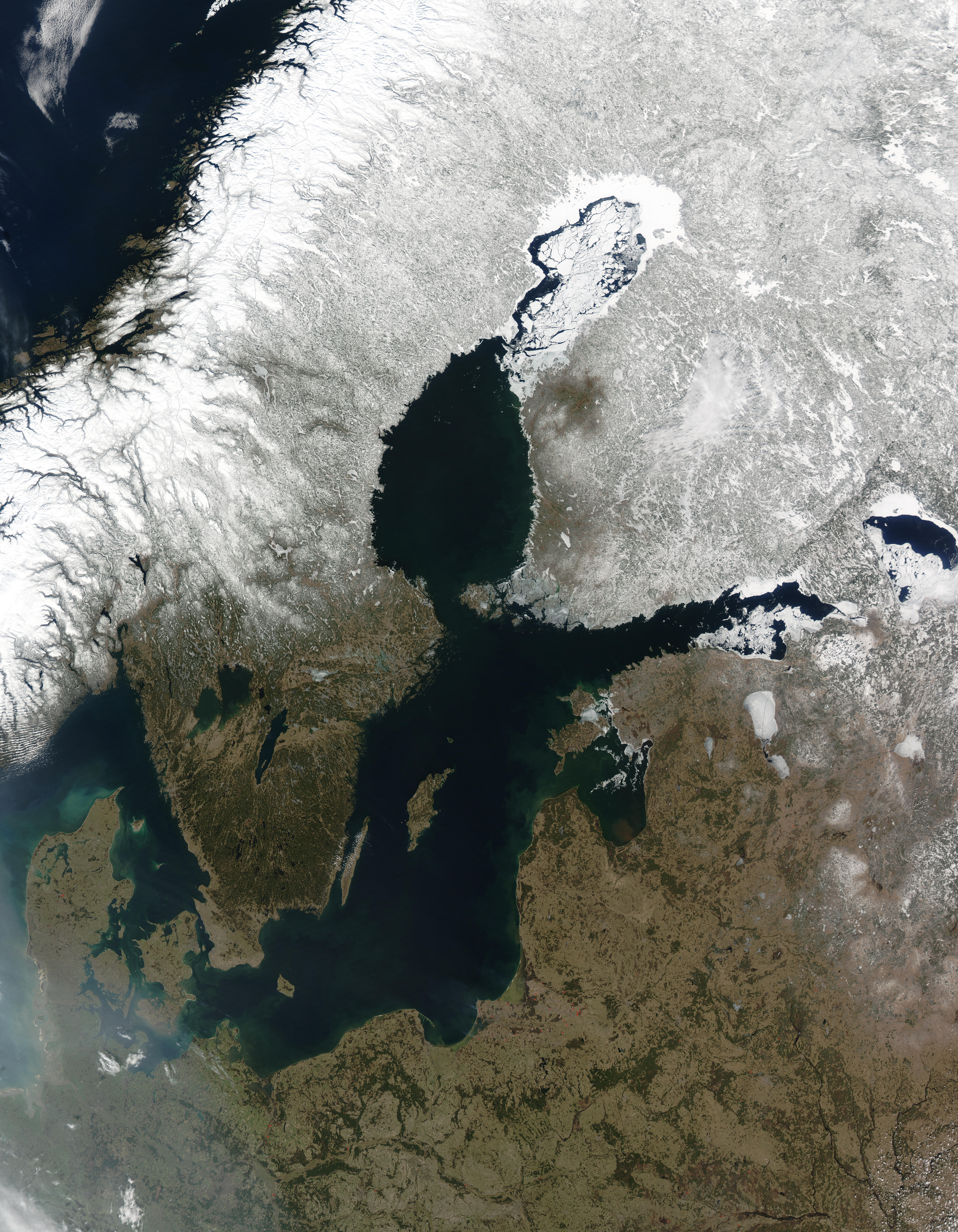 Satellite image of the Baltic Sea. Red dots mark the locations of fires burning in countries south and east of the Baltic Sea.